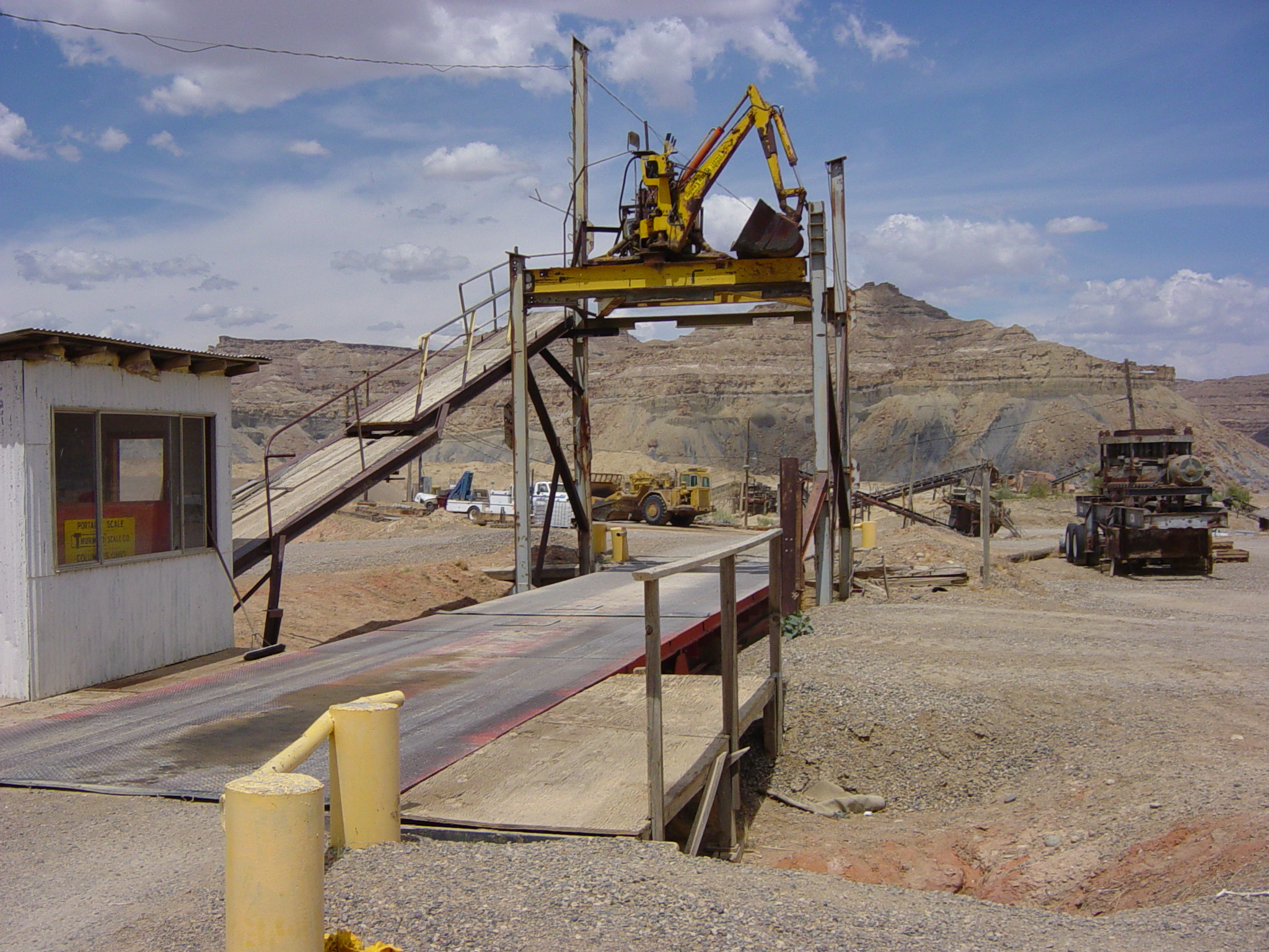 A weigh bridge. Image by User:Leonard G. The weigh bridge is the two part platform over which trucks are driven. The upper works is auxiliary equipment for leveling the load in the truck and is not part of the scale mechanism. Portable scale manufactured by Thurman Scale Co., Columbus, Ohio. This example located in southern Utah near Lake Powell.